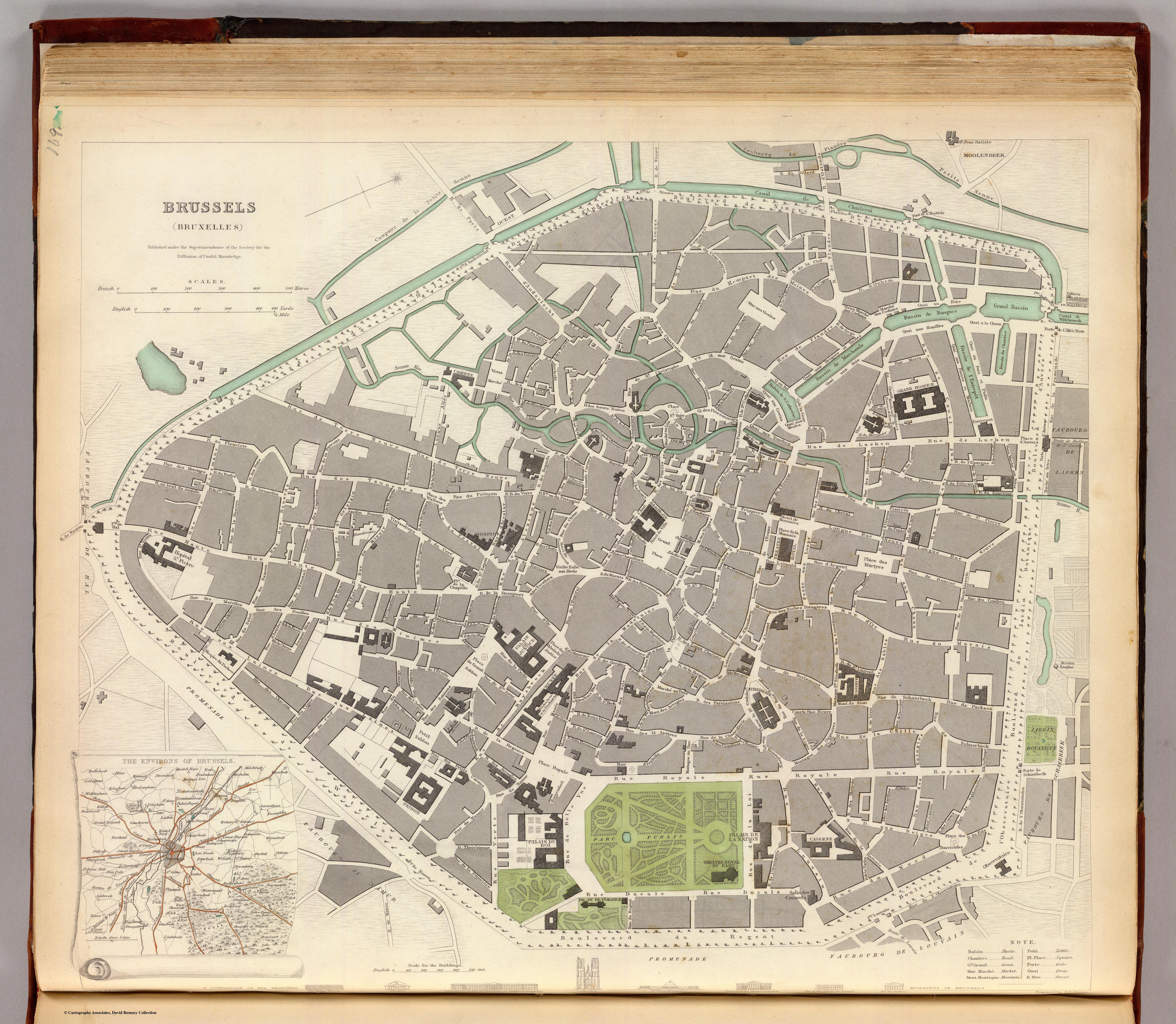 Map of Brussels, 1837. North is roughly to the right.